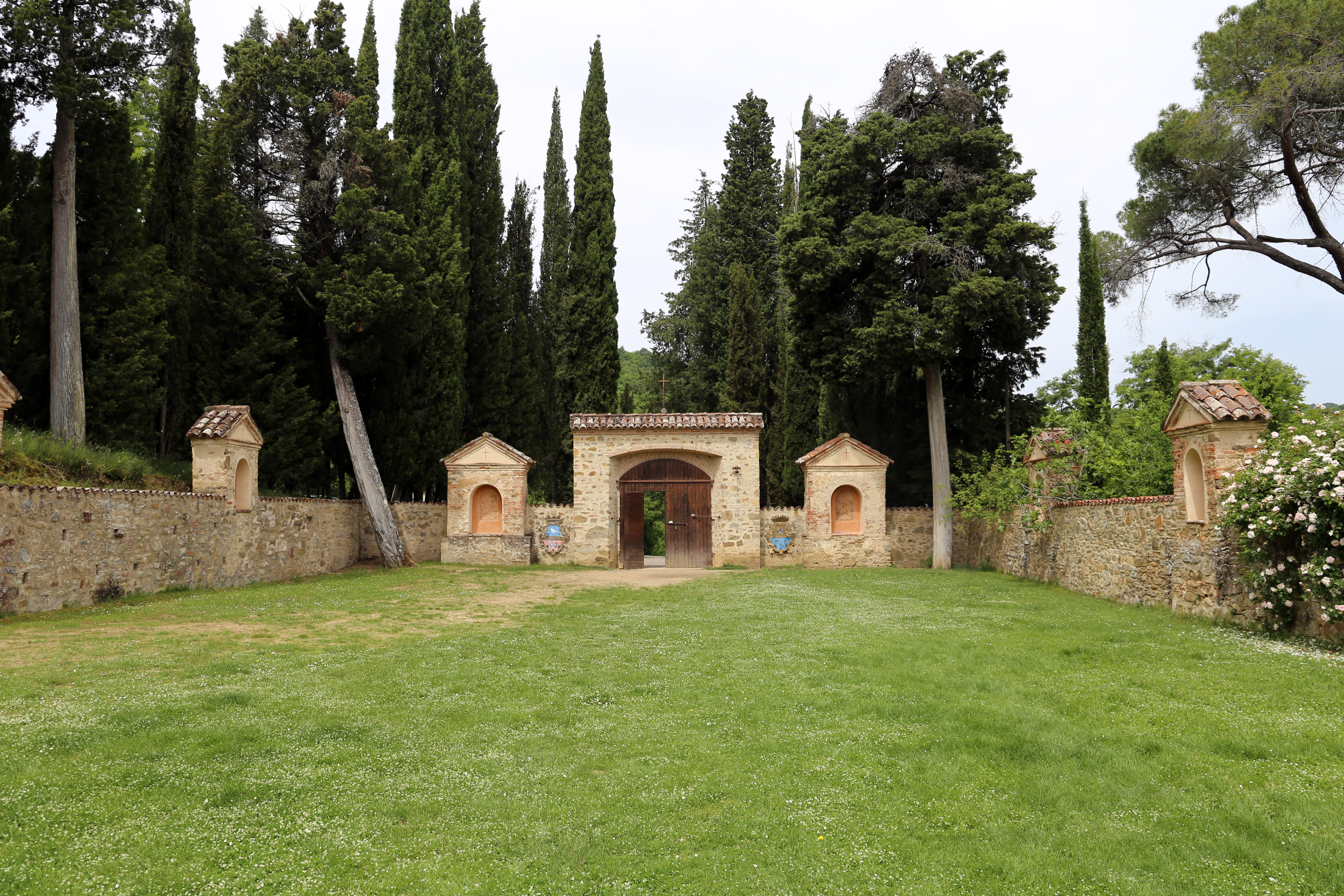 La Scarzuola